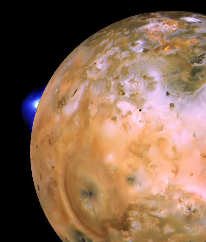 Voyager 1 image of Io showing active plume of Loki on limb. Heart-shaped feature southeast of Loki consists of fallout deposits from active plume Pele. The images that make up this mosaic were taken from an average distance of approximately 490,000 kilometers (340,000 miles)